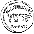 738 woodcuts illustrating the work A Dictionary of Roman Coins, Republican and Imperial (1889). To identify a coin please look at the filename to identify a page number, and check the Dictionary on numiswiki